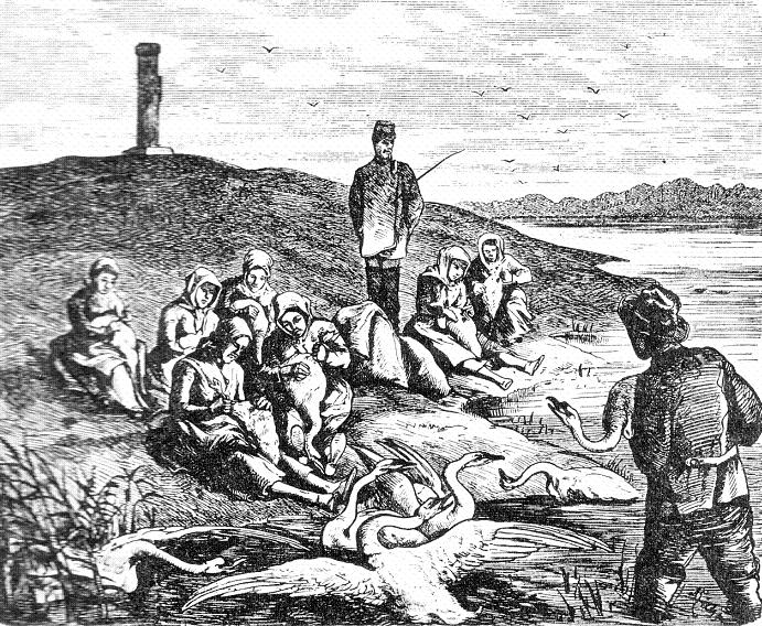 Drawing (lithography) „Das Schildhorn an der Havel“. The „tower“ is a monument commemorating to a legend of the slavic Fürst (prince, ruler) Jacza de Copnic (Jaxa von Köpenick). The monument was created in 1845 by the sculptor Friedrich August Stüler acted on a sketch by Frederick William IV of Prussia. Schildhorn (german for: shieldhorn) is a headland in the river Havel, situated in the protected area Grunewald in the homonymous quarter Grunewald of Berlins borough Charlottenburg-Wilmersdorf, Germany.